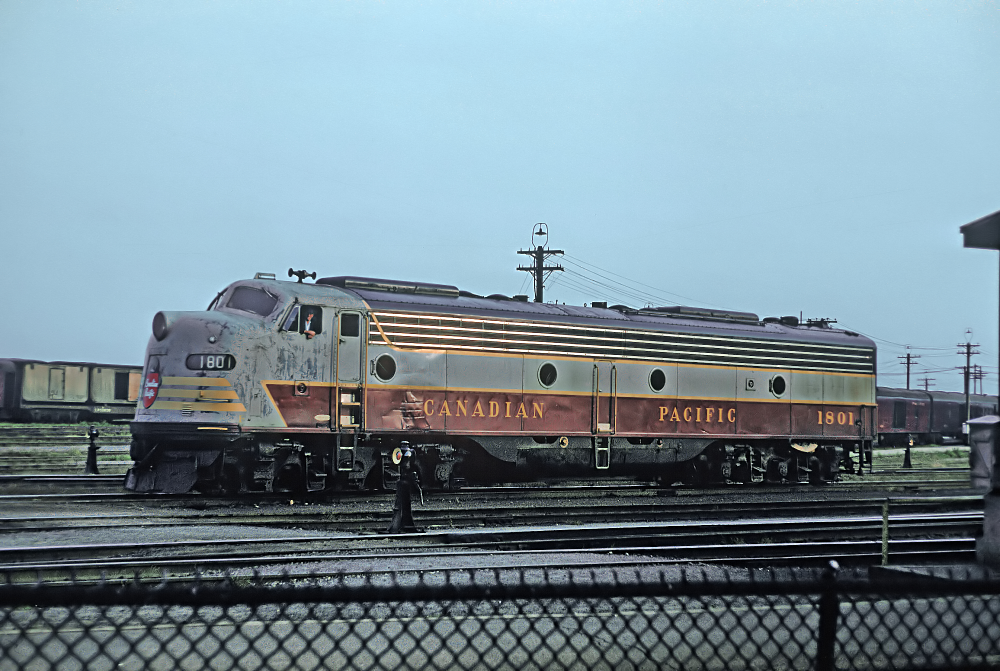 A Roger Puta Photograph